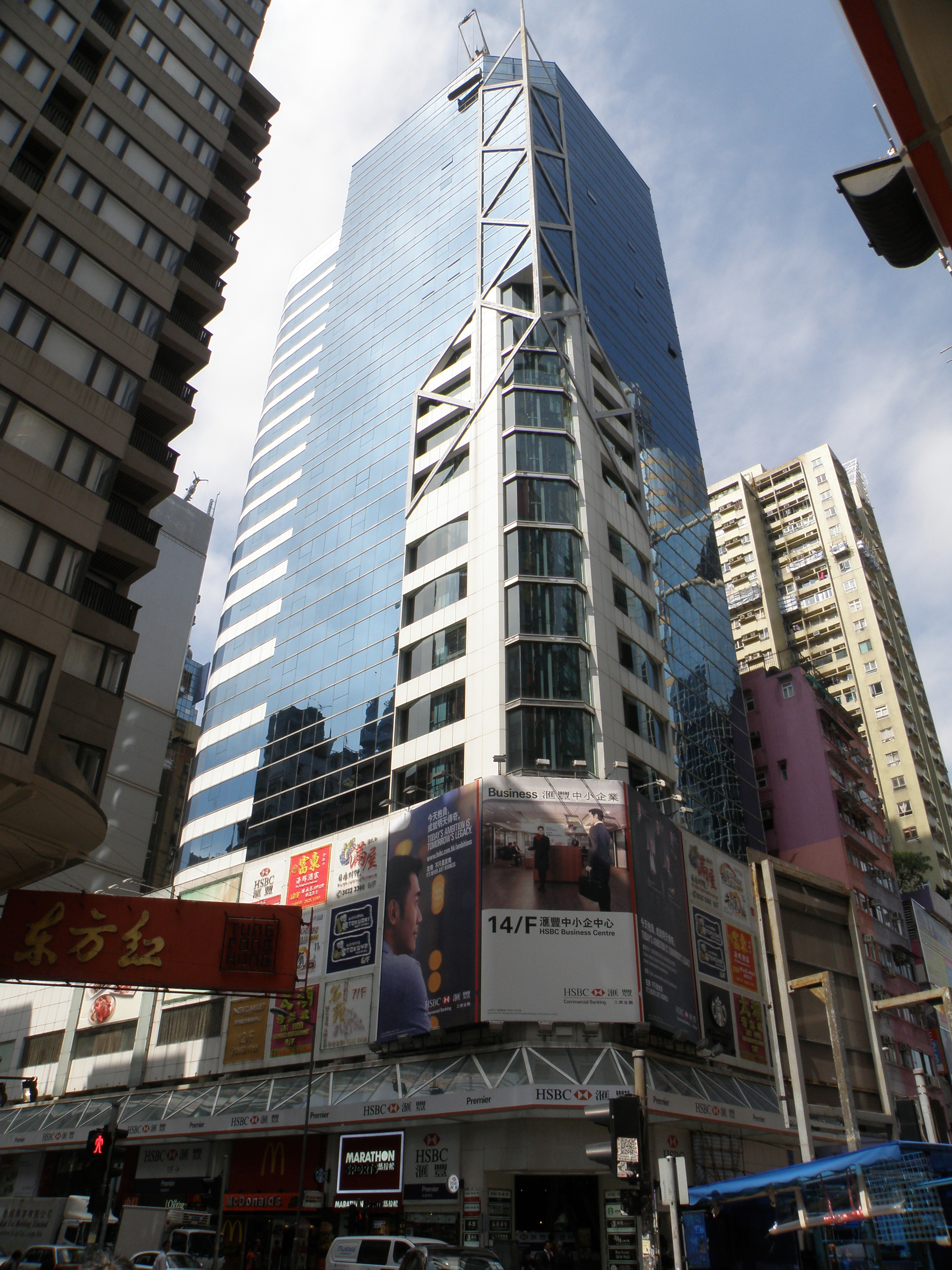 Causeway Bay Plaza 2 in Causeway Bay, Hong Kong.